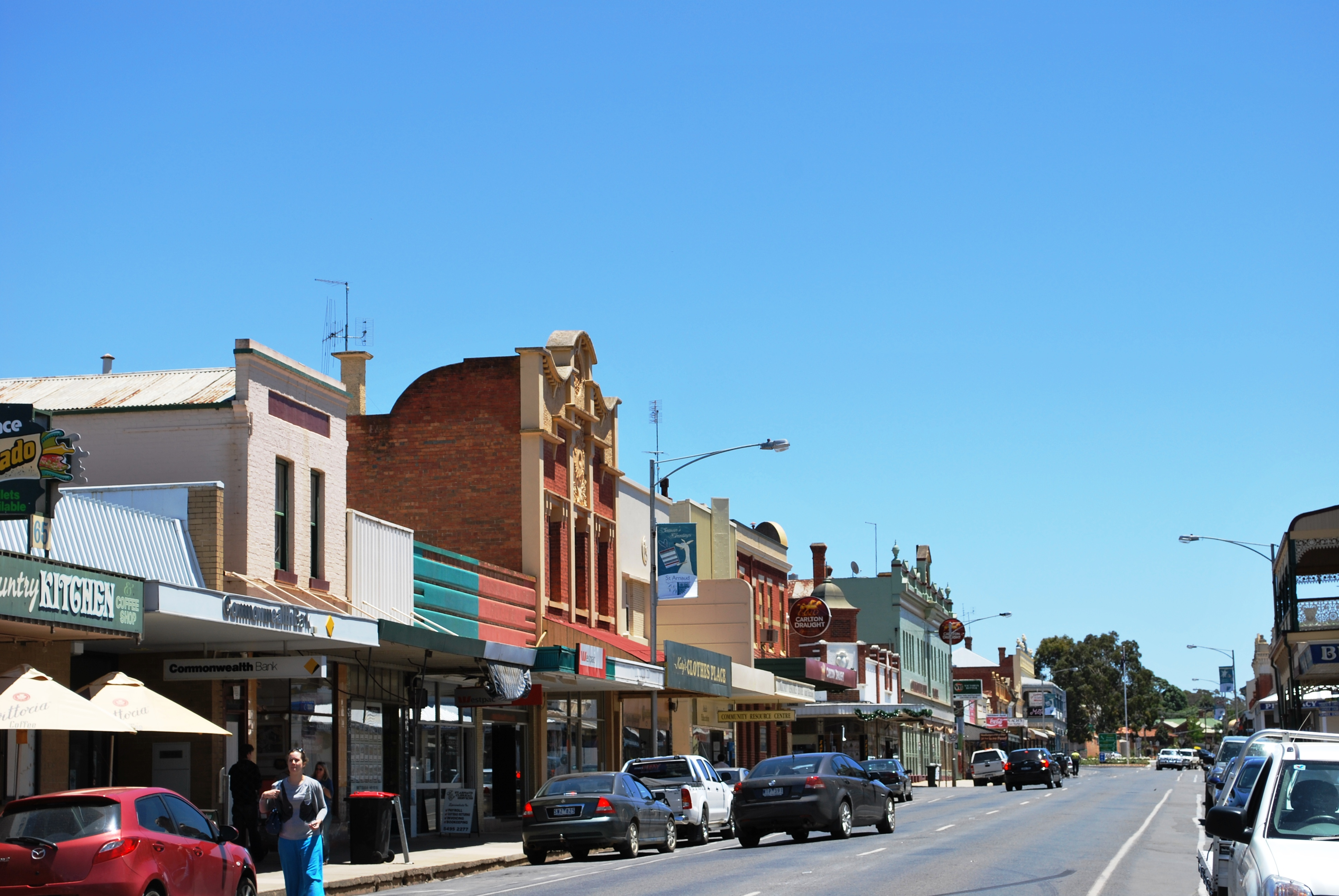 Main street of St Arnaud, Victoria